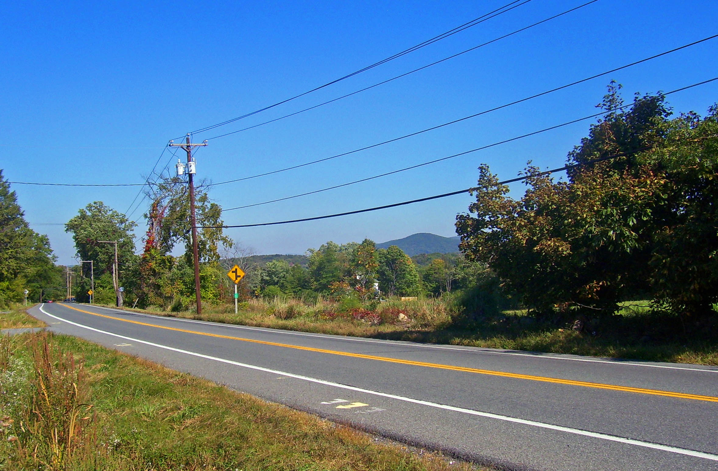 Eastbound view along NY 94 between Chester and Washingtonville, NY, USA